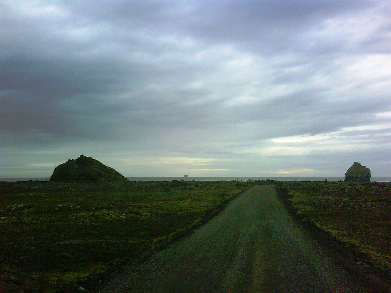 Road 425